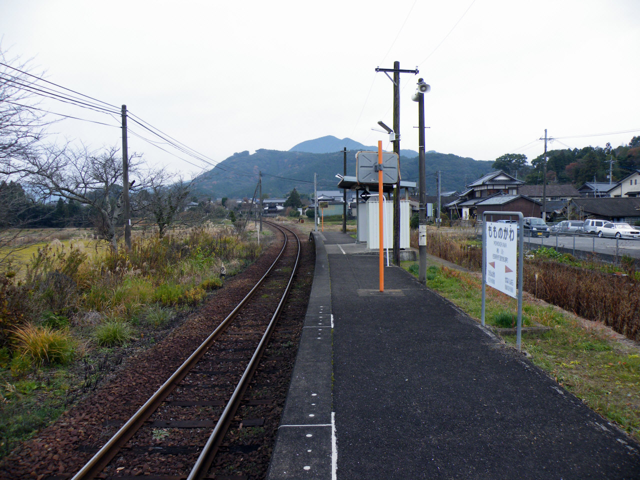 JRKyushu Chikuhi Line Momonokawa Station